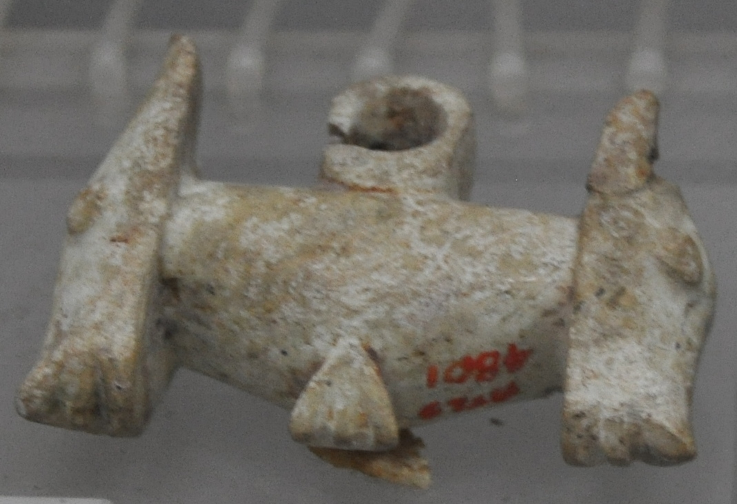 Bicephalous pendant (Jade), Artefacts of Phu Hoa site(Dong Nai province), Collections of the Museum of Vietnamese History Circa 3,000 years ago